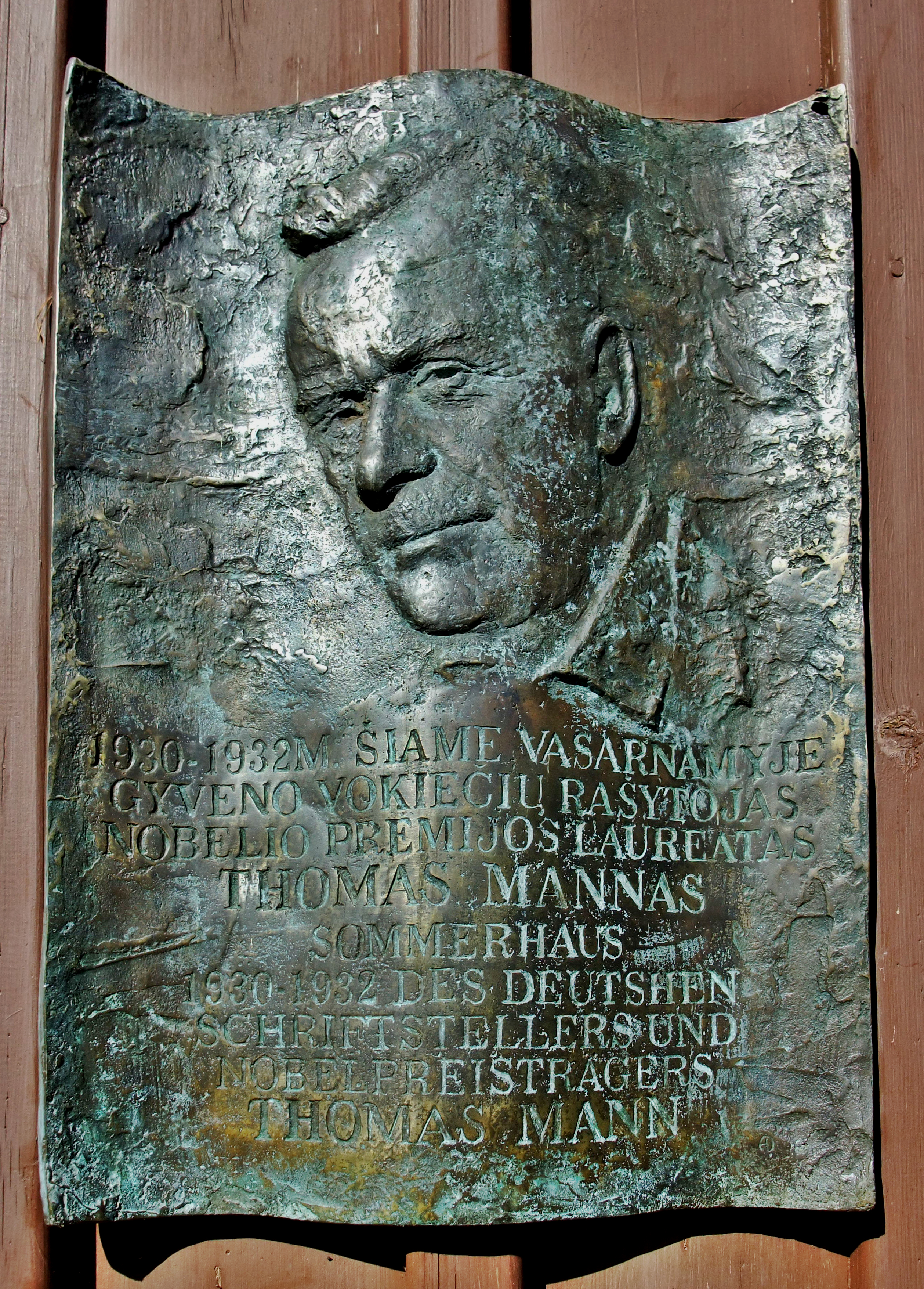 Plaque on the Summer House of Thomas Mann in Nida, Lithuania